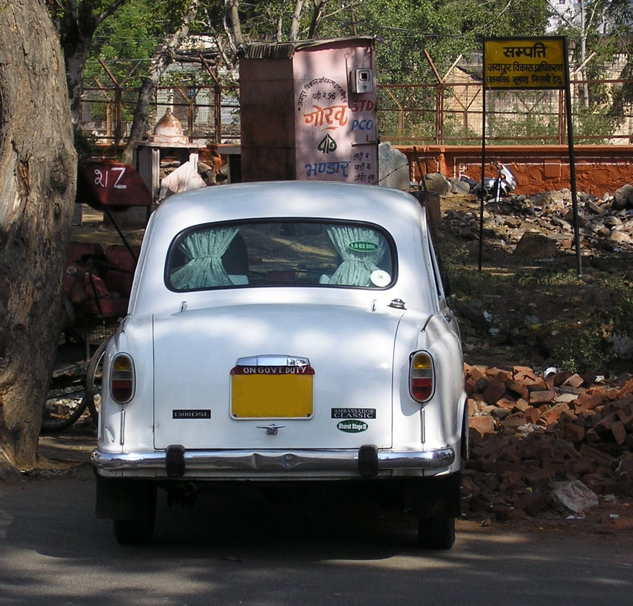 Hindustan Ambassador Classic 1500 DSL.